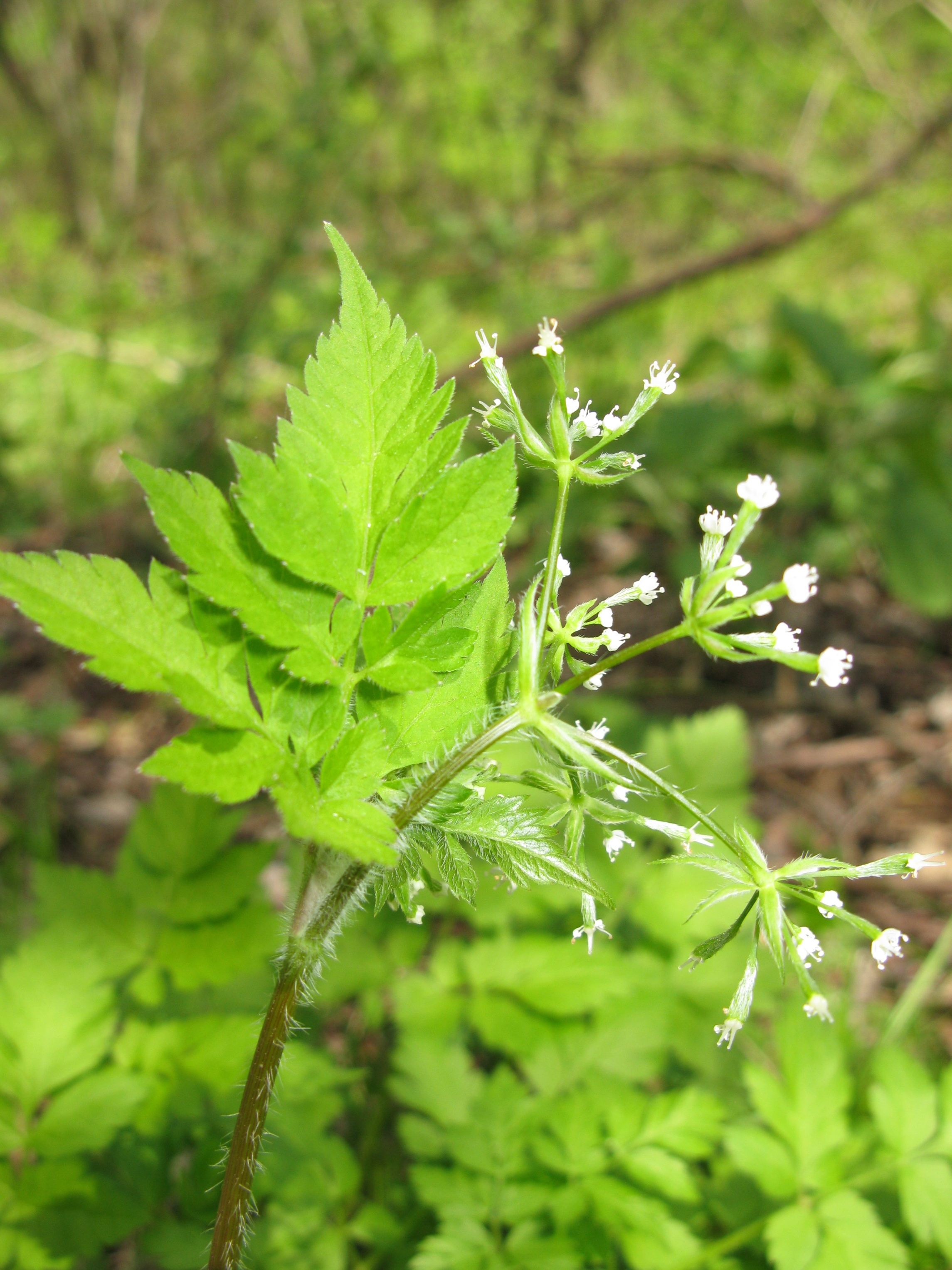 Osmorhiza aristata, Aizu area, Fukushima pref., Japan